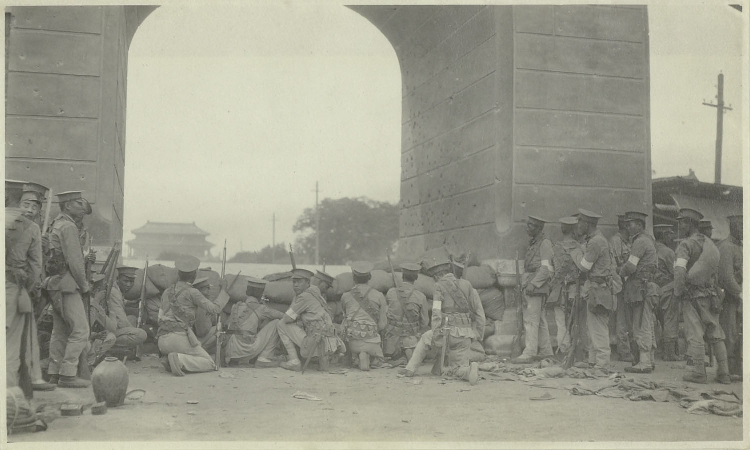 Eastern Palace Entrance, Peking, after the asault of the Republican troops, July 12, 1917